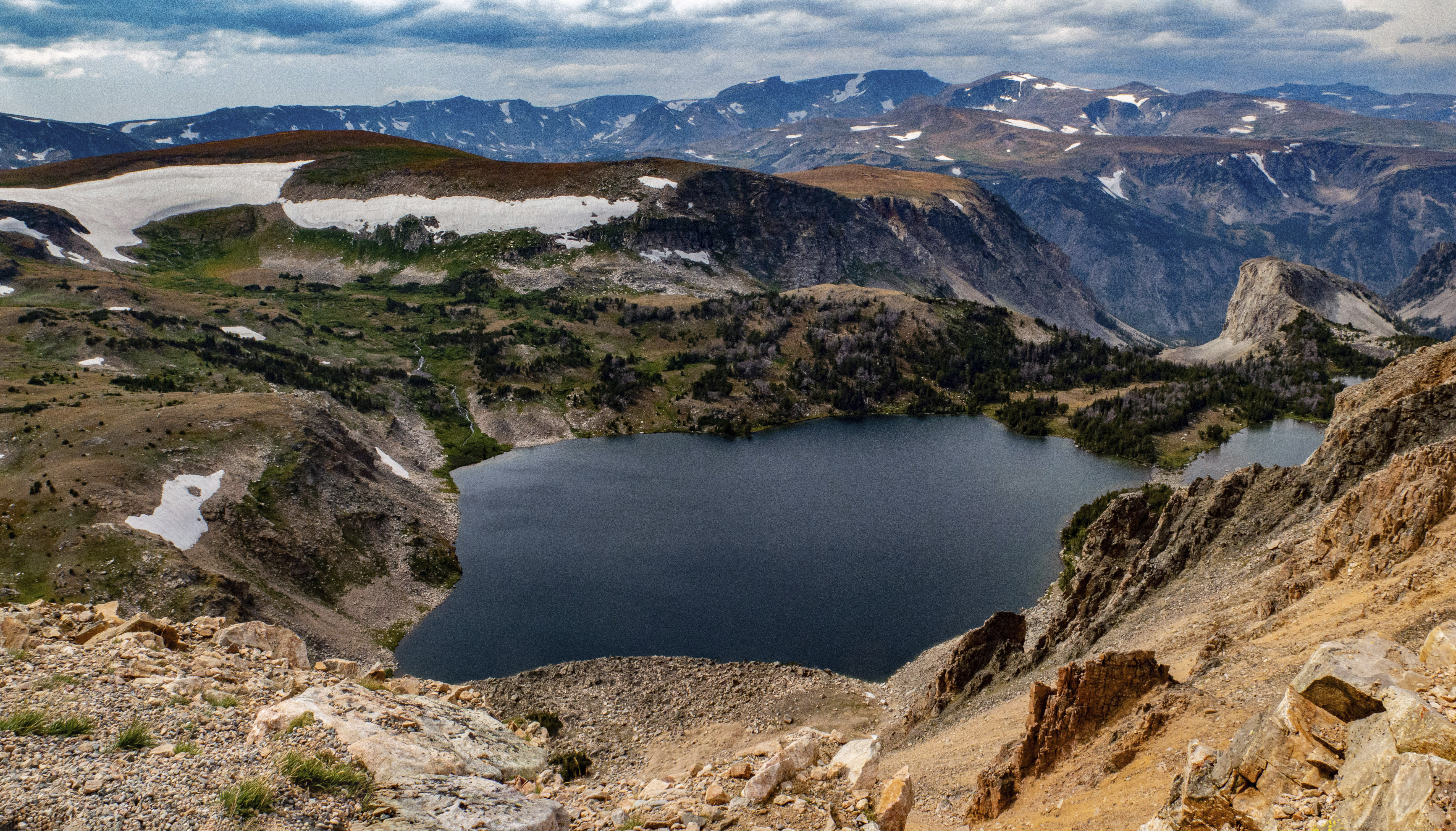 Twin Lakes in Beartooth Mountains near Beartooth Highway